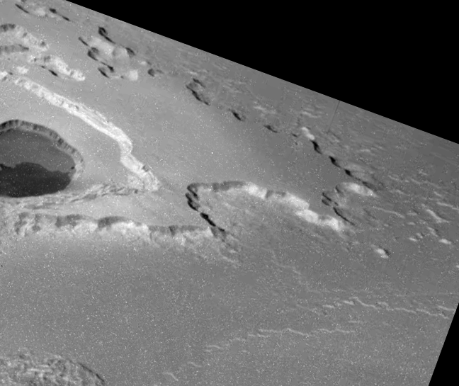 This figure show one of Io's morphological type-Mesa. This example is Tvashtar Mesa. It has a flat top and a sharp boundary.